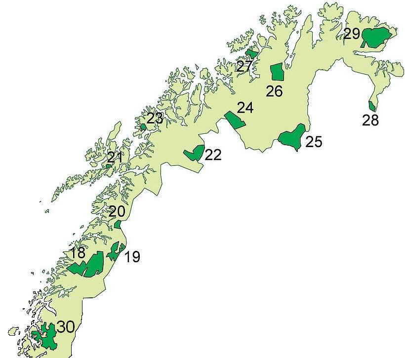 New map at the occasion of a new National Park in Nort-Norway, established on May 29th, 2009. The parks are 18: Saltfjellet-Svartisen nasjonalpark; 19: Junkerdal nasjonalpark; 20: Rago nasjonalpark; 21: Møysalen nasjonalpark; 22: Øvre dividal nasjonalpark; 23: Ånderdalen nasjonalpark; 24: Reisa nasjonalpark; 25: Øvre Anarjohka nasjonalpark; 26: Stabbursdalen nasjonalpark; 27: Seiland nasjonalpark; 28: Øvre Pasvik nasjonalpark; 29: Varangerhalvøya nasjonalpark; 30: Lomsdal-Visten nasjonalpark (For legend